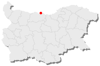 Map of Bulgaria, the red point is the position of Nikopol.